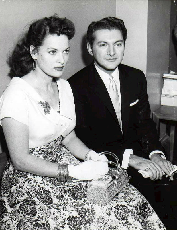 Photo of Maureen O’Hara and Liberace in 1957 in a Los Angeles court.